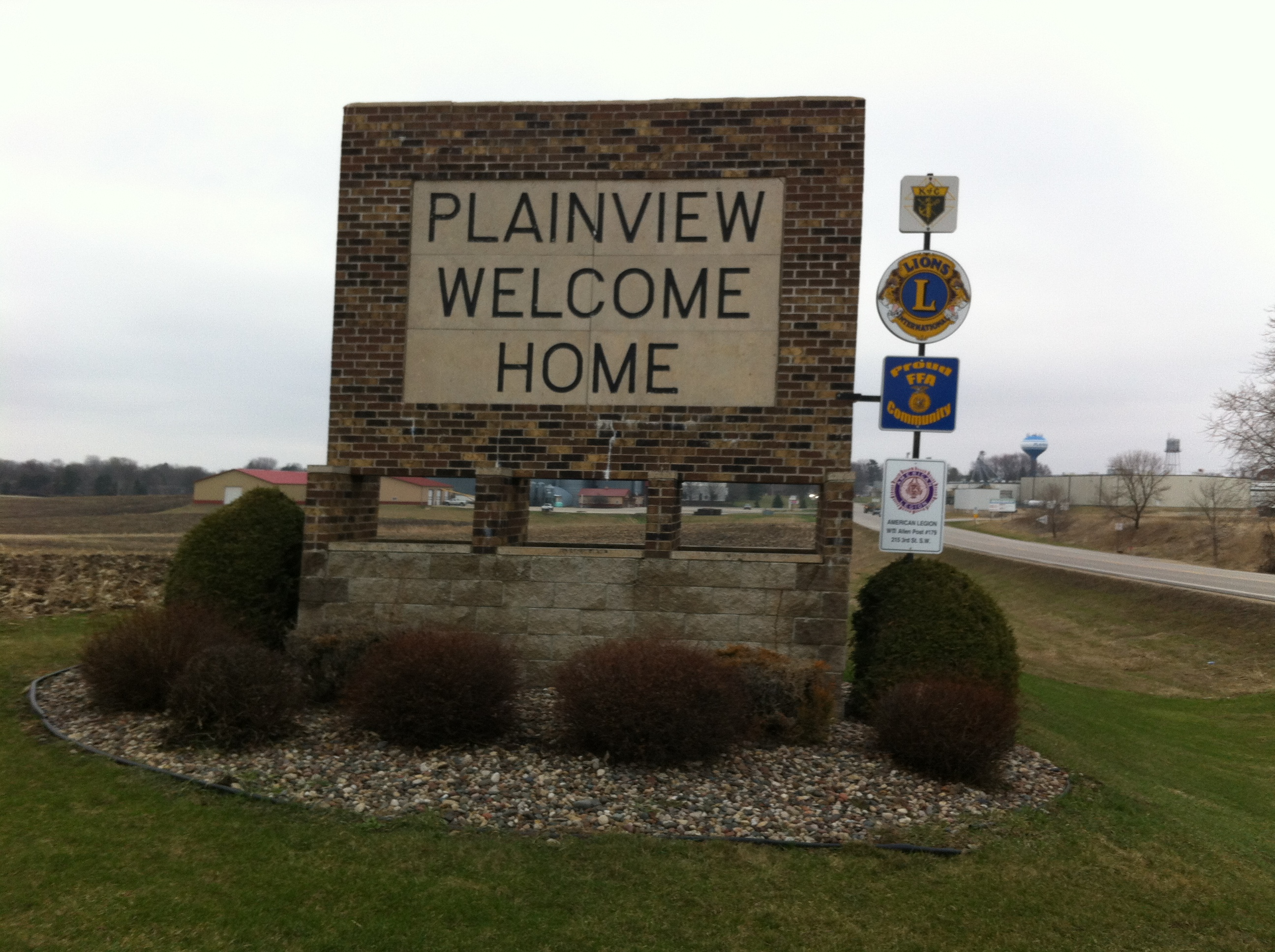 Plainview Welcome Home sign on Minnesota State Highway 247 (West Broadway) west of Lakeside Foods, 1055 West Broadway, Plainview, Minnesota.